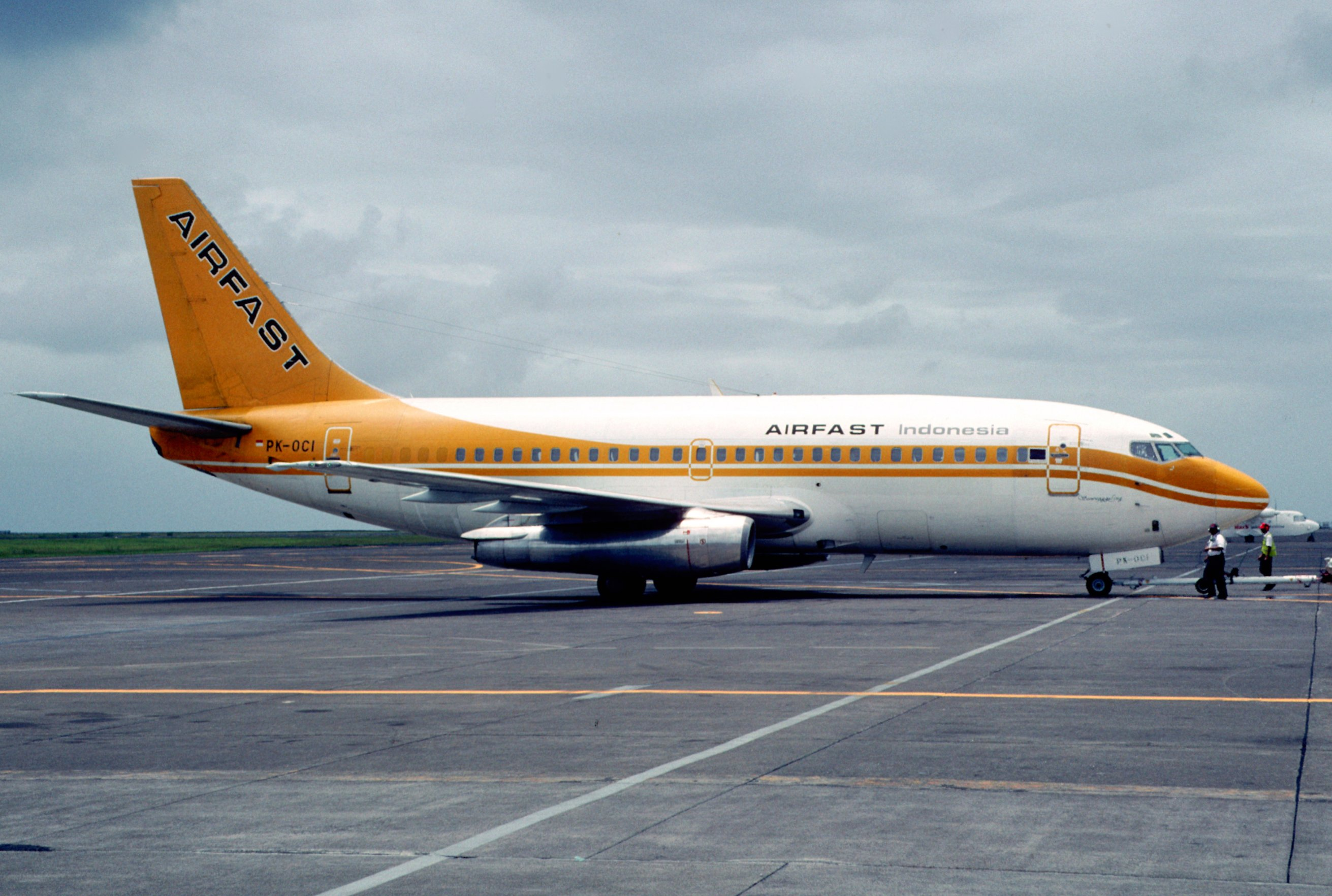 Airfast Indonesia Boeing 737-230C; PK-OCI, 2001/ CUH